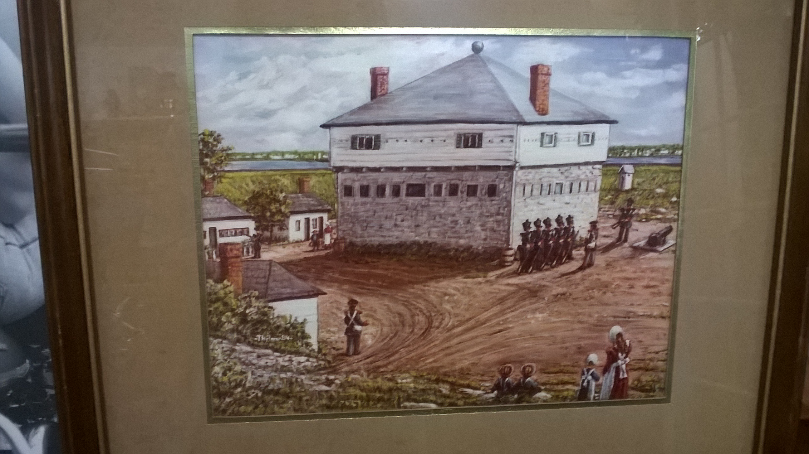 A picture of a framed print of a Thelma Cameron work depicting Fort Wellington. This particular print was on display in a local Prescott store. The original painting was gifted to Queen Elizabeth II in the 1980s during her visit to the fort.